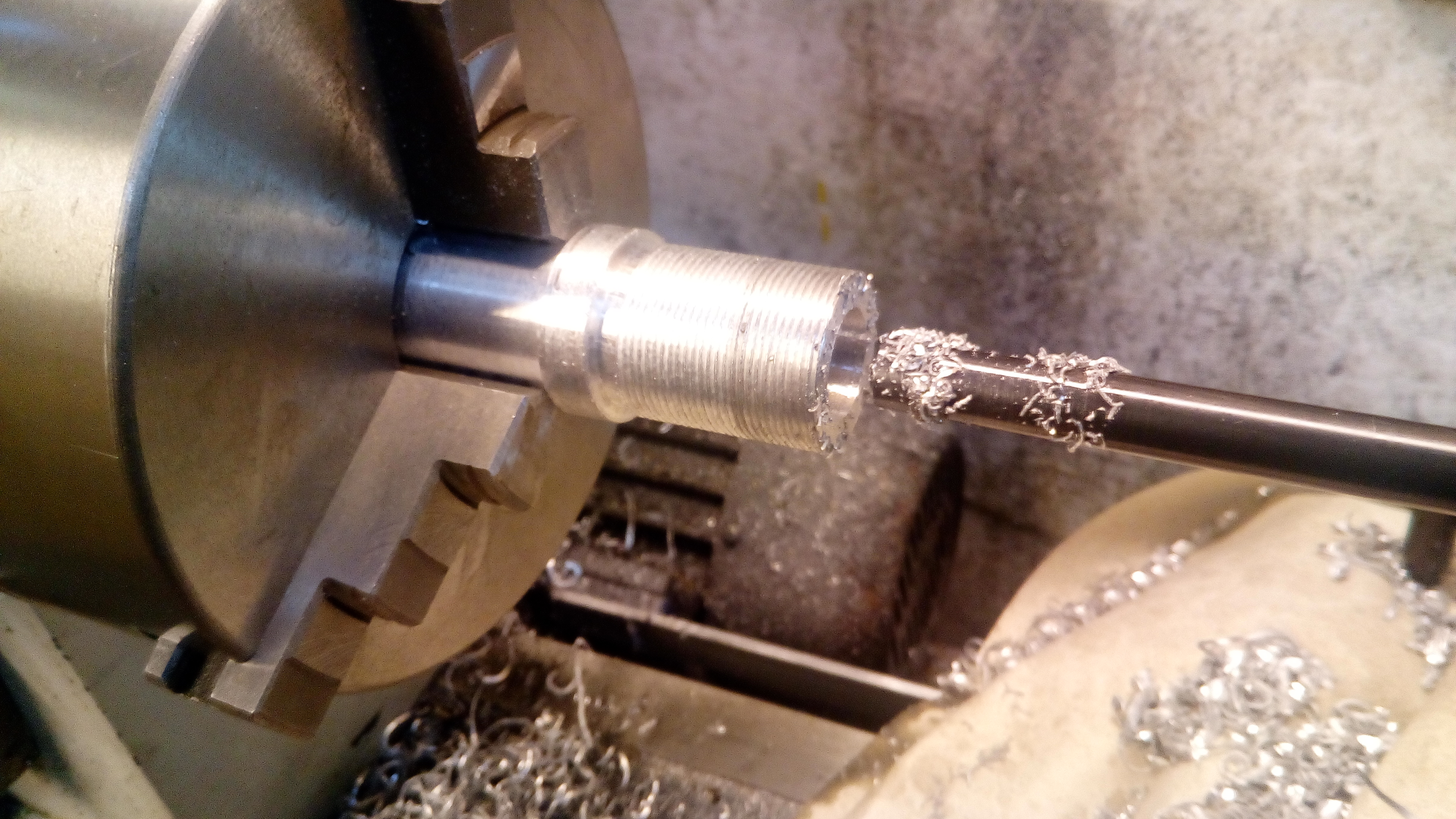 Toolpost mounted boring bar used to enlarge a hole with a lathe.